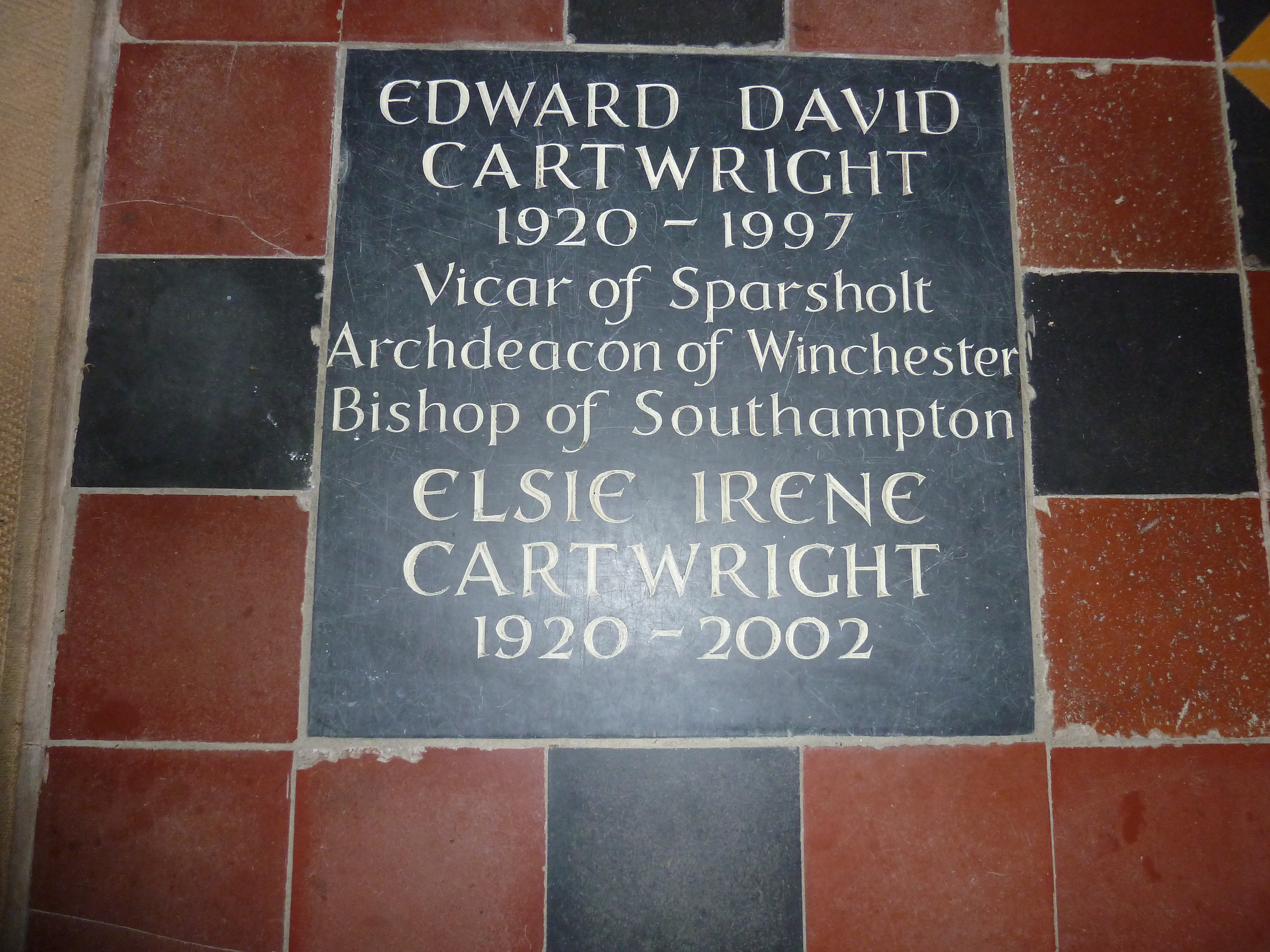 Fprmer Bishop of Southampton